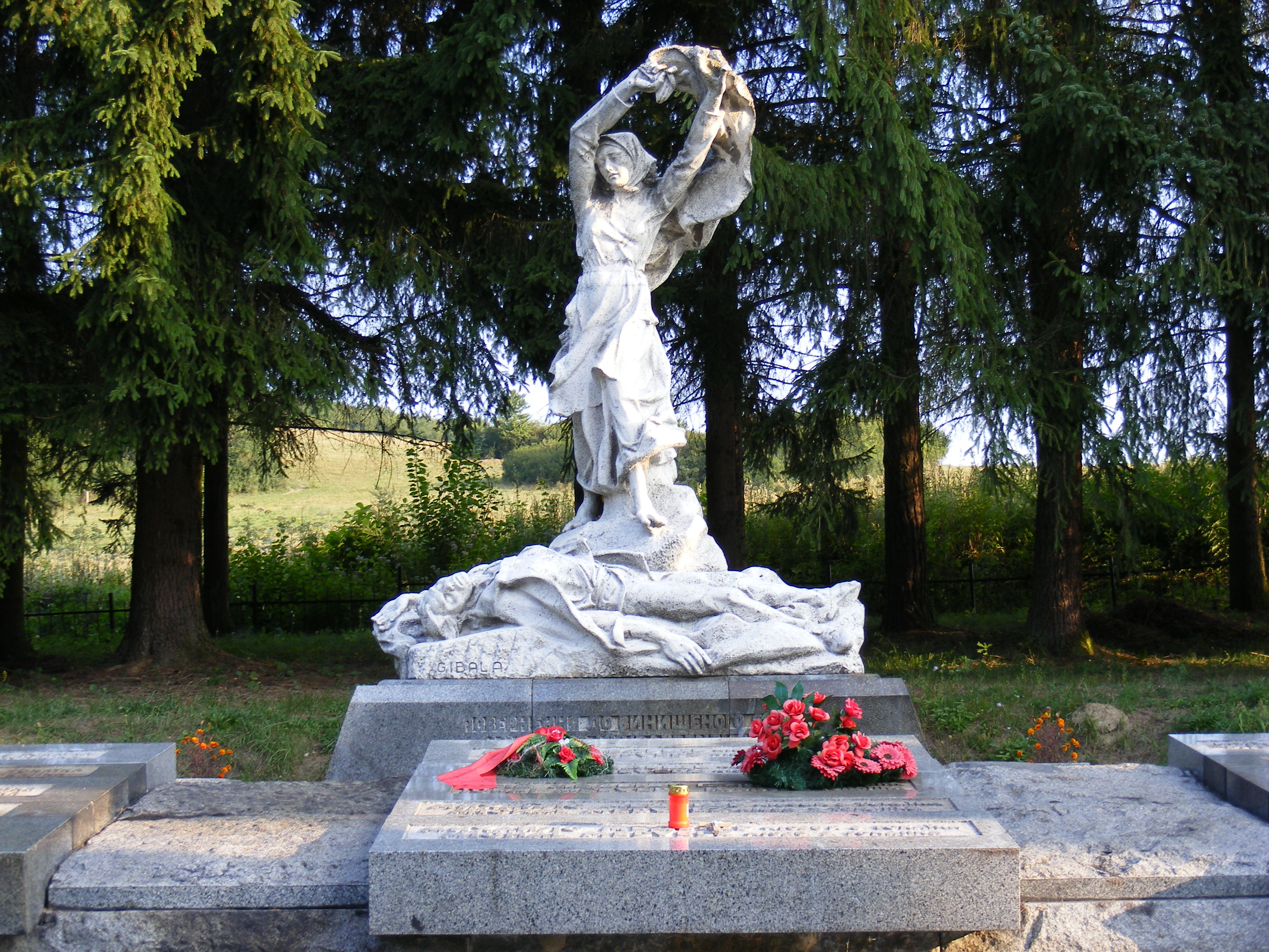 František Gibala stature “Return to burned village”. Monument was built in 1959 on the cemetry in Tokajík (Eastern Slovakia) to commemorate murder of 32 man from the village and its destruction by German forces during World War II.